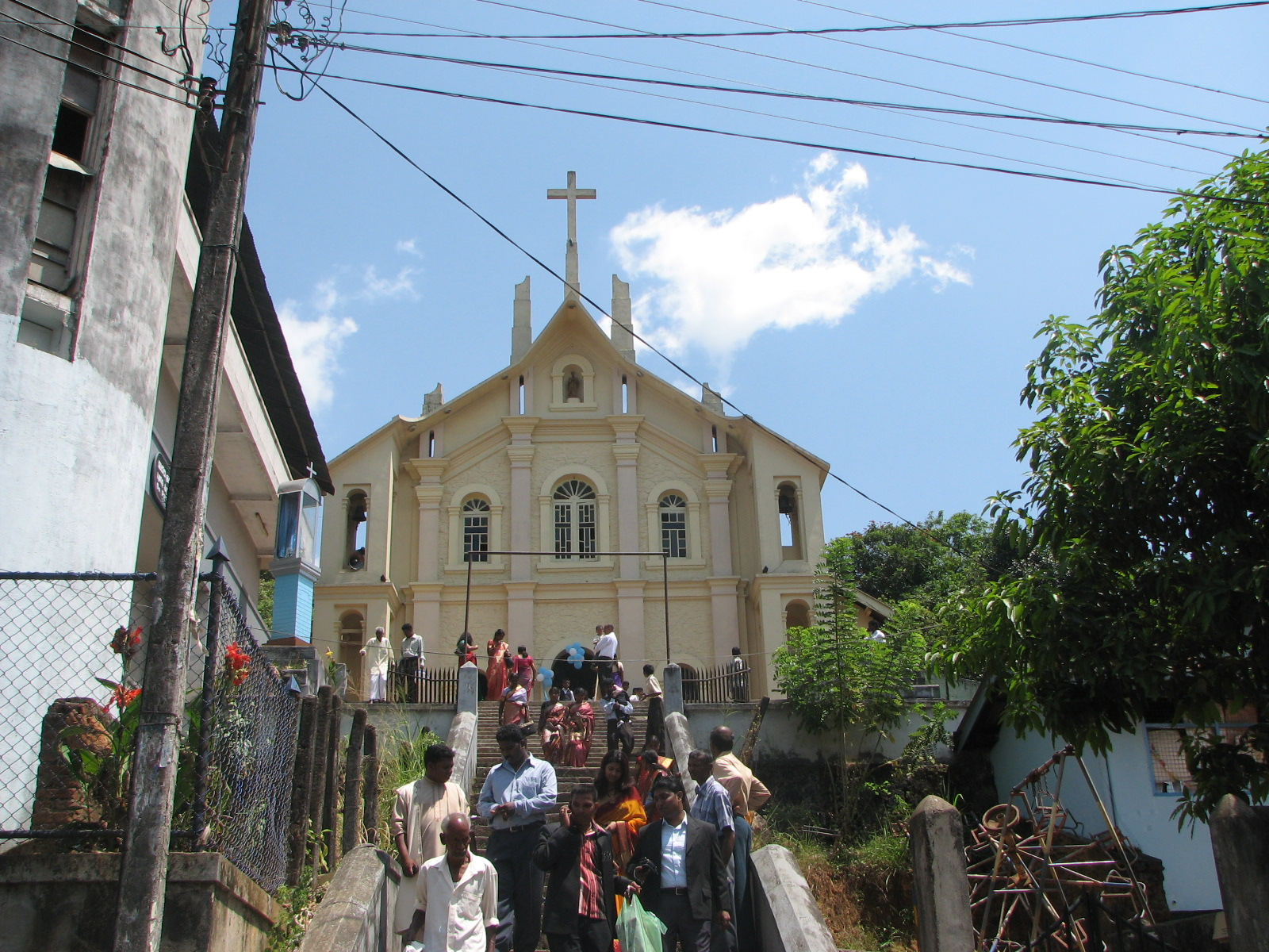 Ss.Peter-Paul Catholic church was built in hill inside the town of Ratnapura. The current Church is said to be inspired by Joseph Vass the Apostle of Ceylon during the 17th century when he visited Ratnapura as a part of his apostolic mission to Sabaragamuwa. After Sabaragamuwa became a diocese on 2 November 1995 Peter-Paul Church was raised to the stats of Cathedral of the diocese.